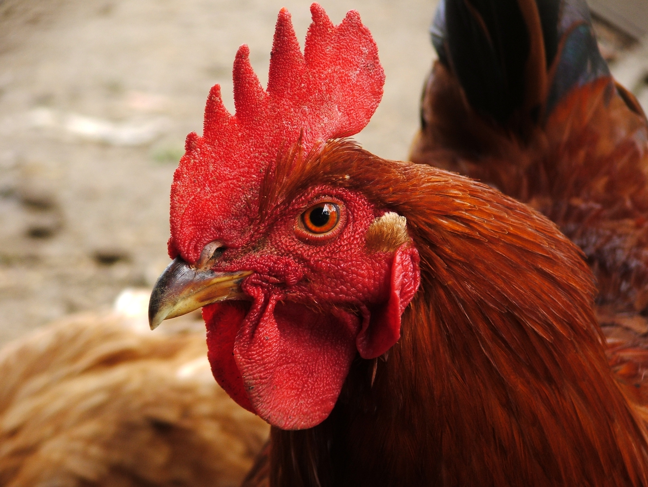 Rooster